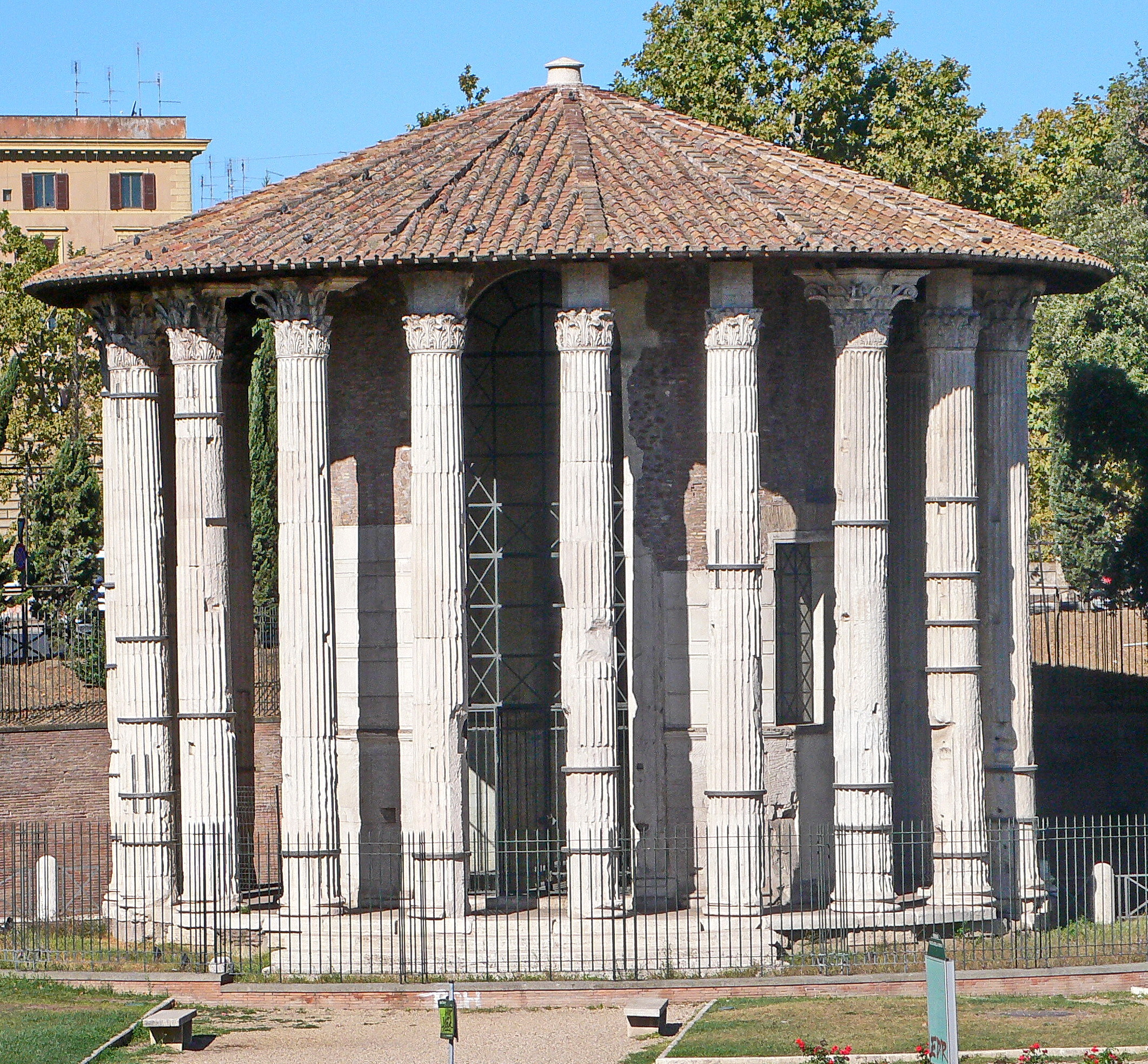 Tempel of Hercules Victor; Forum Boarium (Rome)